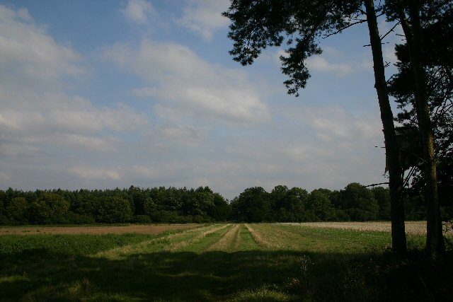 Fakenham Wood. This view is of the central section of the wood. The track ends at the edge of the wood.